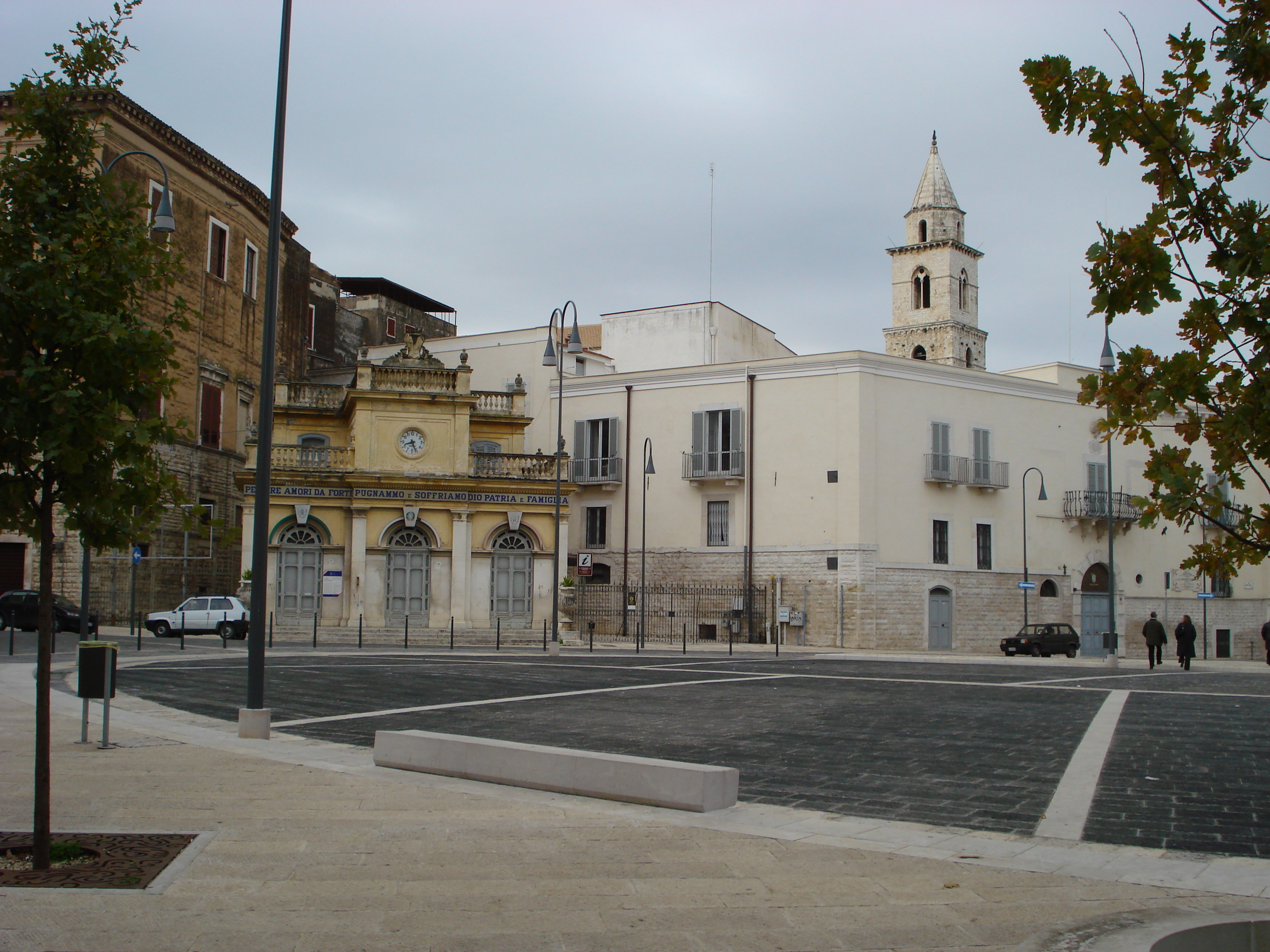 Piazza Catuma - Piazza Vittorio Emanuele II, Andria